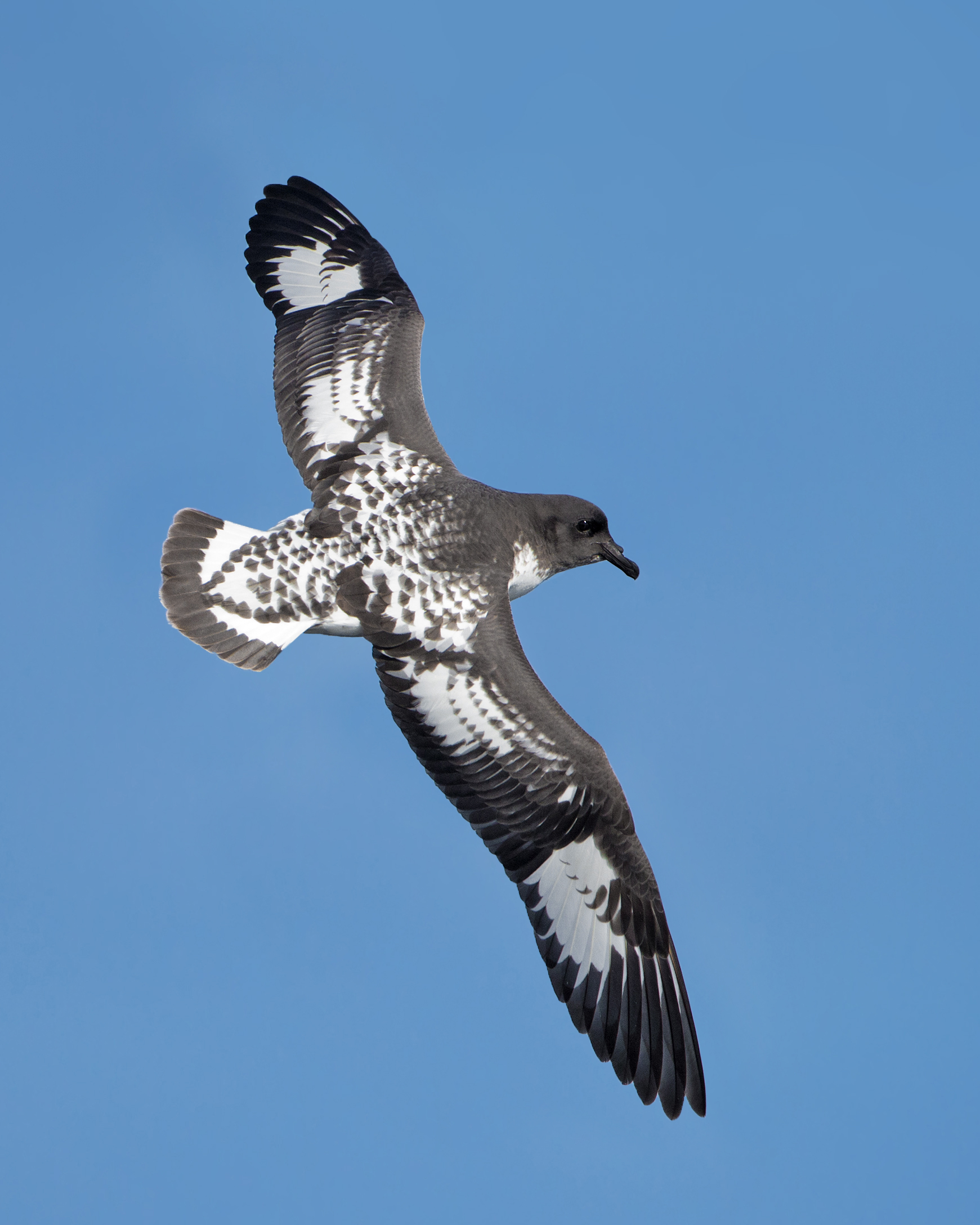 Cape Petrel (Daption capense) in flight, East of the Tasman Peninsula, Tasmania, Australia